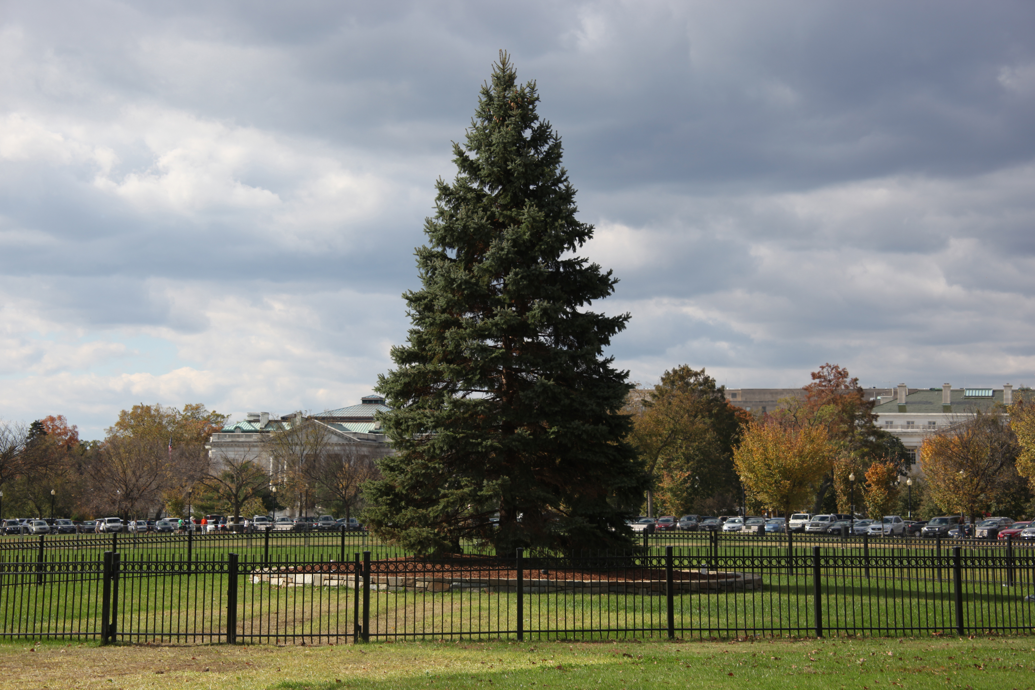 Looking west across The Ellipse at the U.S. National Christmas Tree six days after it was planted.